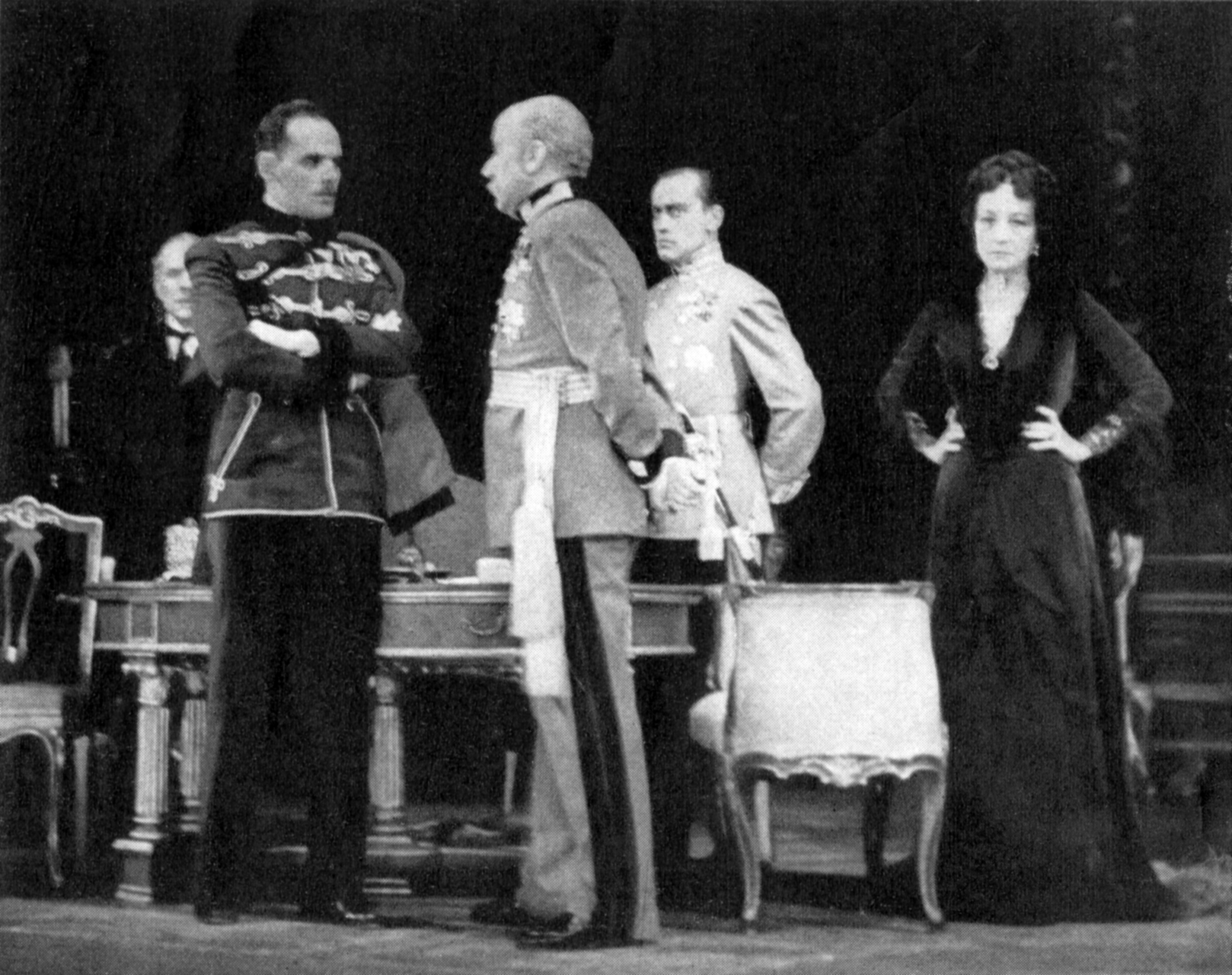 Photograph of the original Broadway stage production of The Masque of Kings by Maxwell Anderson Caption: The Masque of Kings Crown Prince, Emperor, Archduke, and Empress—Hapsburgs all—have a family argument in Maxwell Anderson’s poetic drama. The Emperor has just walked in on a meeting of the conspirators, and finds his son among them. Left to right: Henry Hull as Crown Prince Rudolph, Dudley Digges as Franz Joseph, Joseph Holland as Archduke John of Tuscany, Pauline Frederick as Empress Elizabeth.